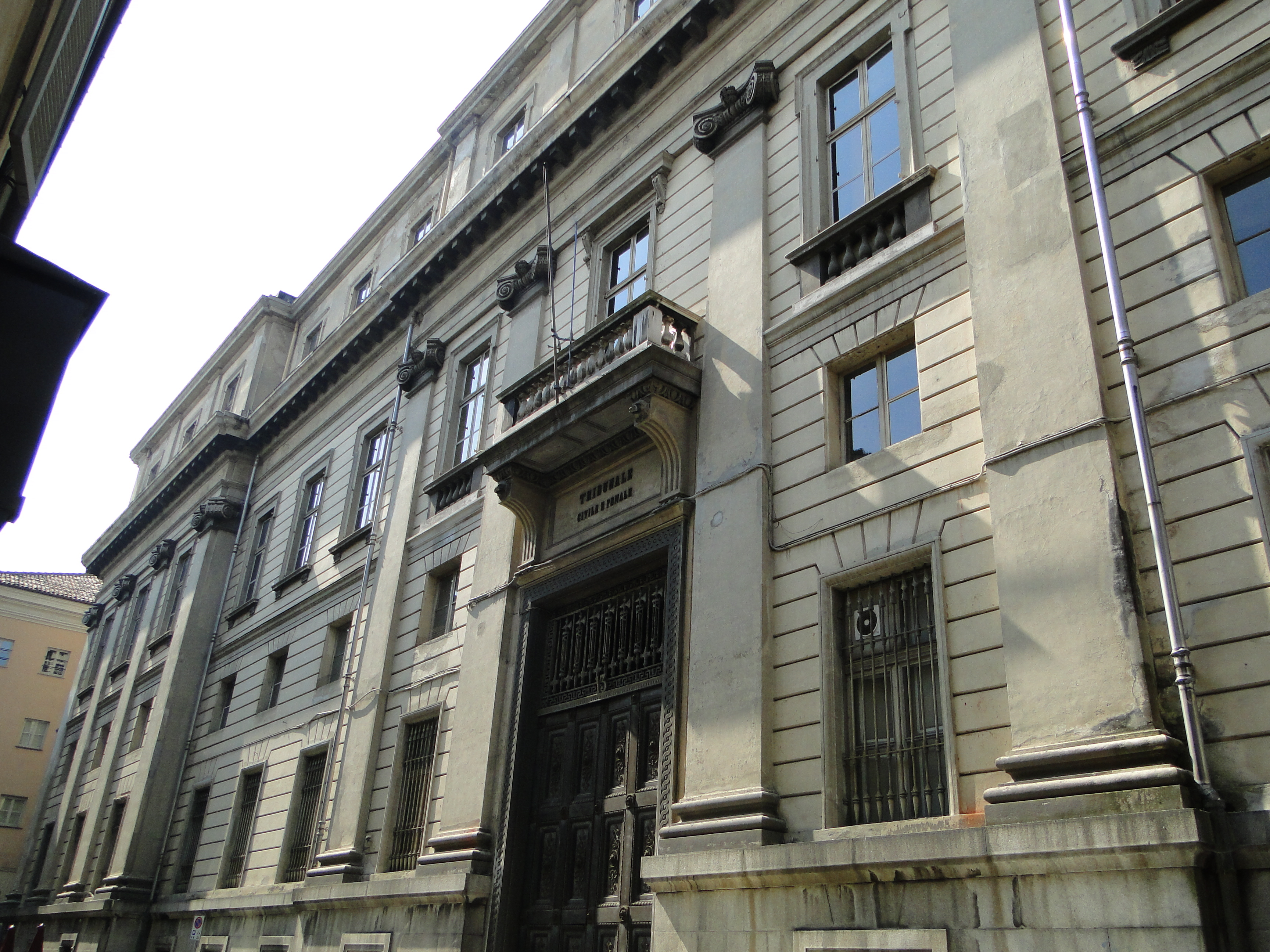 Palace of the Senate of Savoy - Rear view